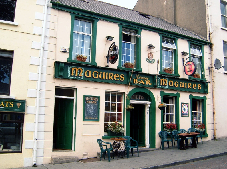 Bar at the main square of Moville